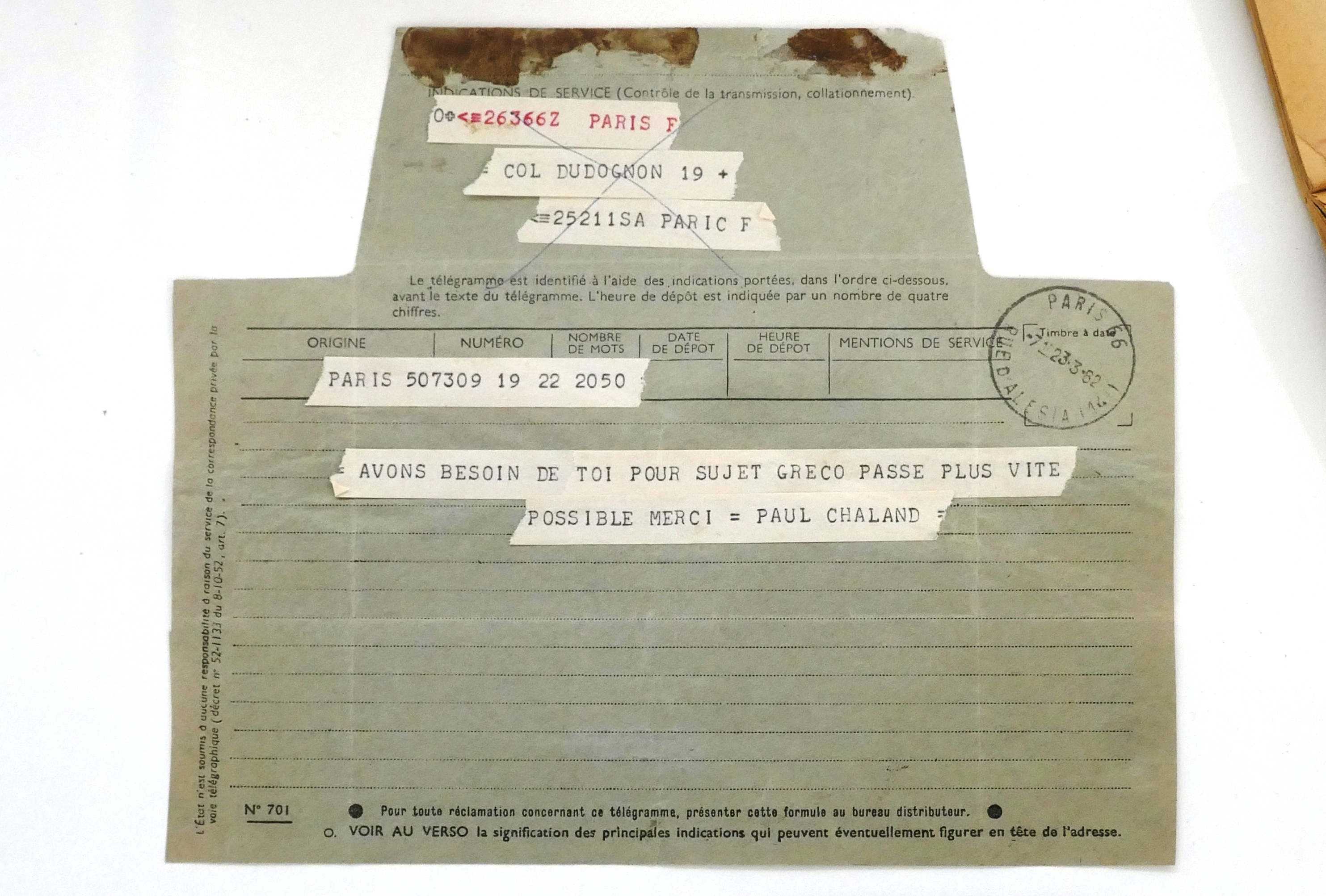 Telegram from Paul Chaland, editor-in-chief of Paris Match to a correspondent, 1962. Museum of Gendarmerie and Cinema, Saint-Tropez, August 2015. Exhibition « Georges Dudognon, Look on the Cinema on French Riviera, Photographs 1949-1966 »